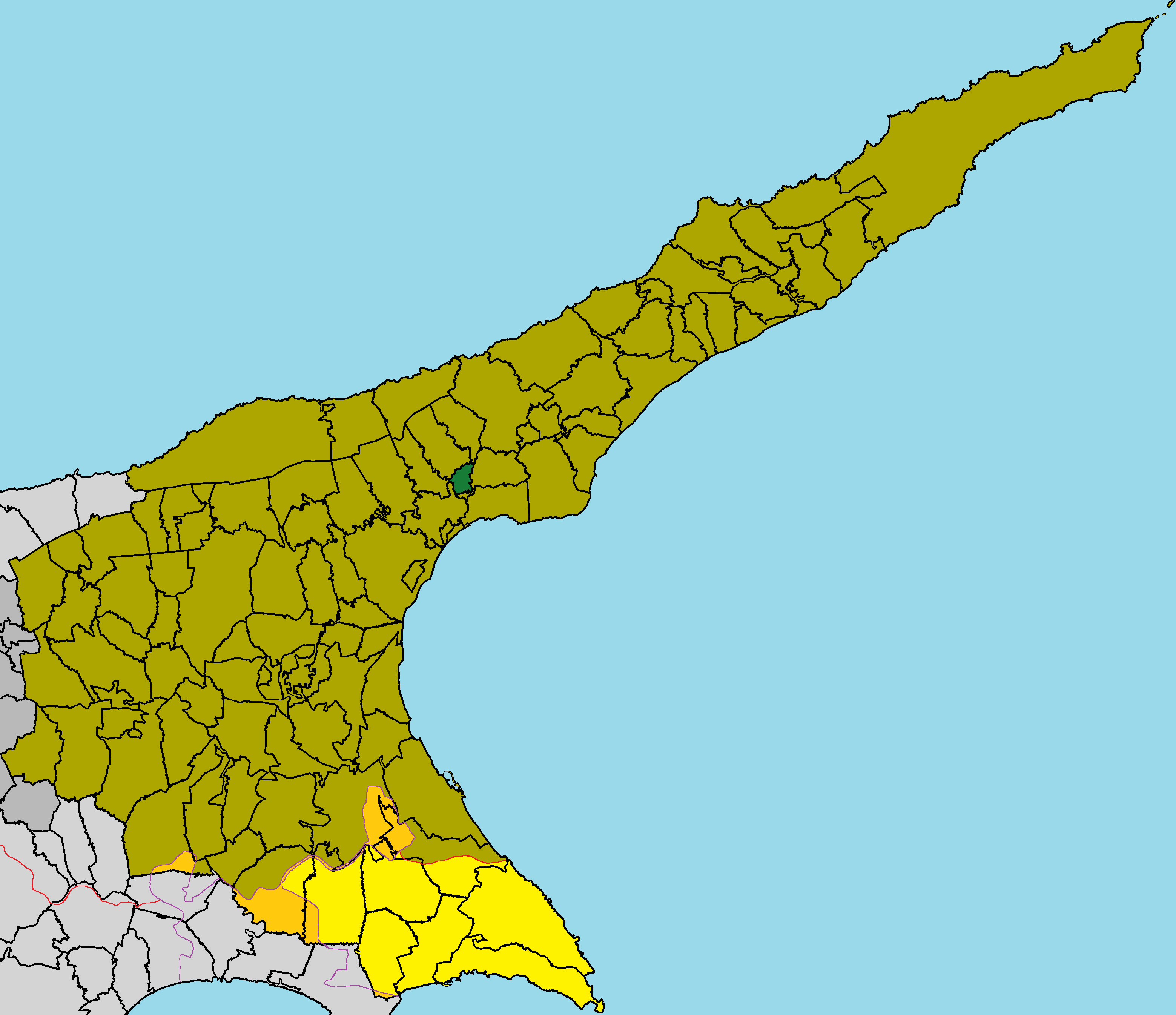 Avgolida in Famagusta District (de jure).